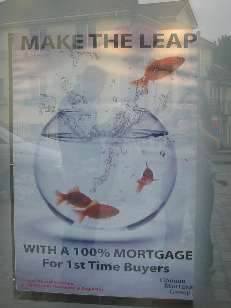 Photo taken by D & C Malone, G McCullagh, of poster on Wall of Coonan Estate Agents Building in Maynooth (beside shopping centre).